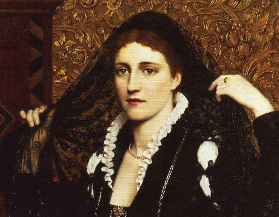 The painting "Olivia" by E. B. Leighton, 1887, soon to be published as coloured lithograph by The Graphic newspaper